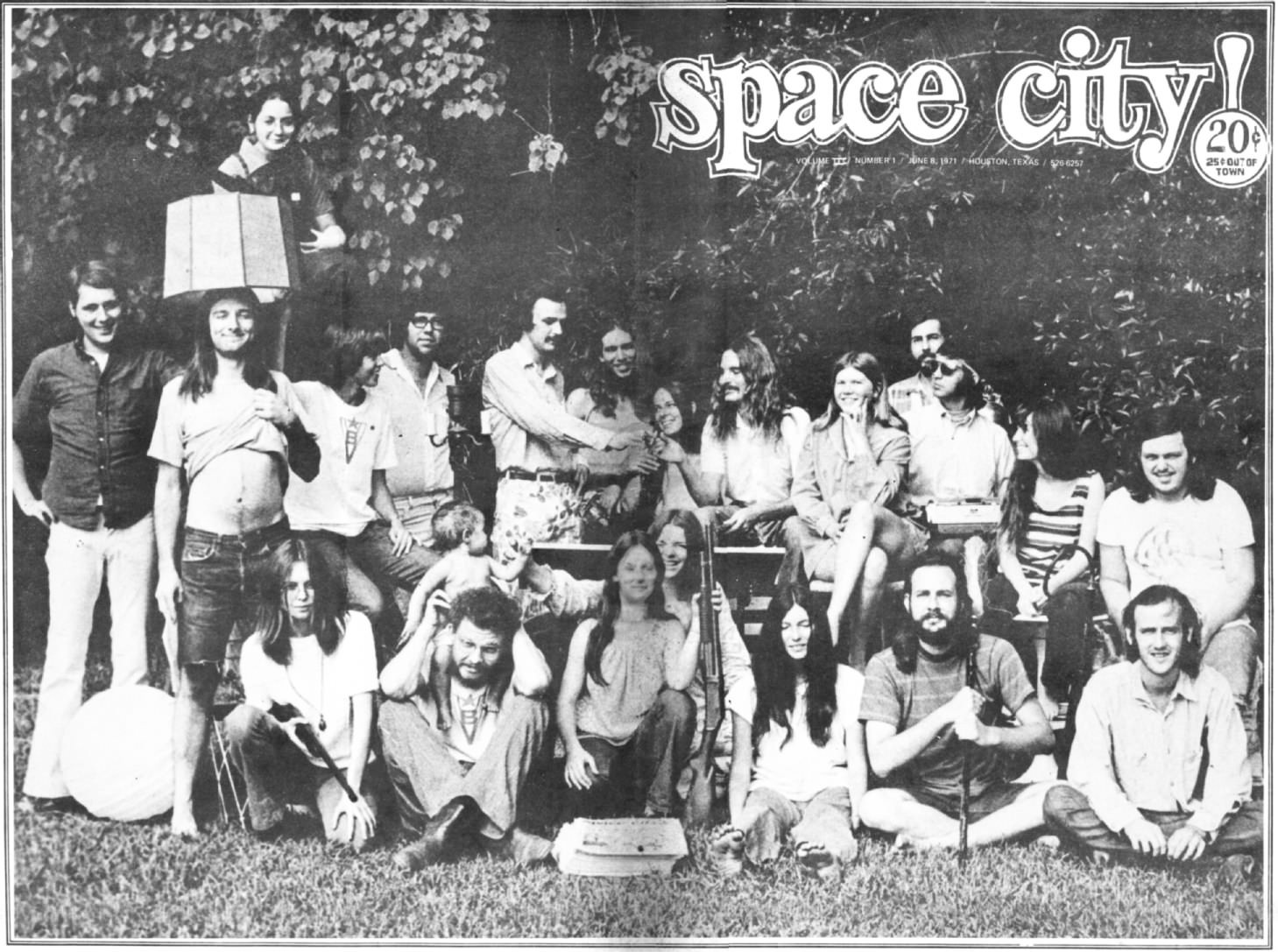 Cover of Space City!, Houston, Texas, Vol. 3, No. 1, June 8, 1971, with photo of the underground paper's staff. Pictured, front row, from left: Victoria Smith (Holden), Sherwood Bishop, Tanya Phillips (on Sherwood's shoulders), Susie Le Blanc, [unidentified], Tina Phillips, Thorne Dreyer, Mark Wilson. Top row (from left): Russ Noland, Bobby Ray Eakin, Sue Mithun Duncan, Tom Hylden, Bryan Baker, Bill Narum, Lynne Bateman, Kerry (Awn) Fitzgerald, Vicki Gladson, Ernie Shawver, [unidentified], Judy Gitlin Fitzgerald, Jim Shannon. Above lampshade: Connie Mendez. Photo by Jerry Sebesta for Space City!